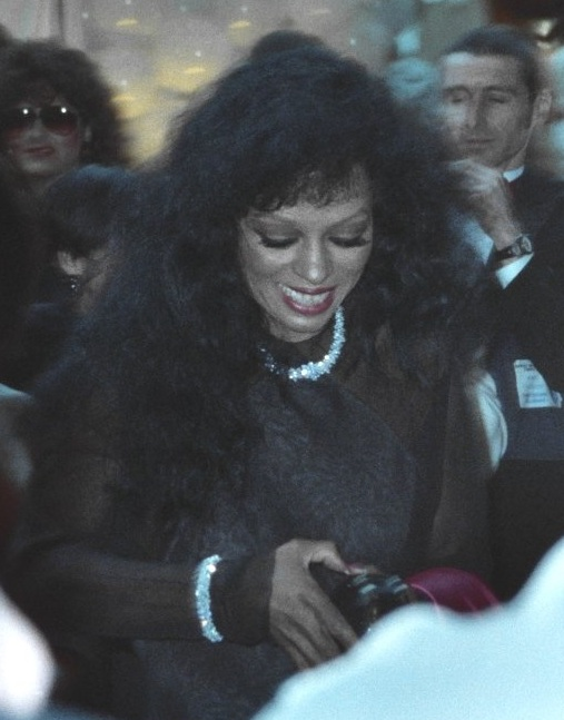 1990 Academy Awards NOTE: Permission granted to copy, publish, broadcast or post any of my photos, but please credit "photo by Alan Light" if you can. Thanks. Scanned from the original 35MM film negative.